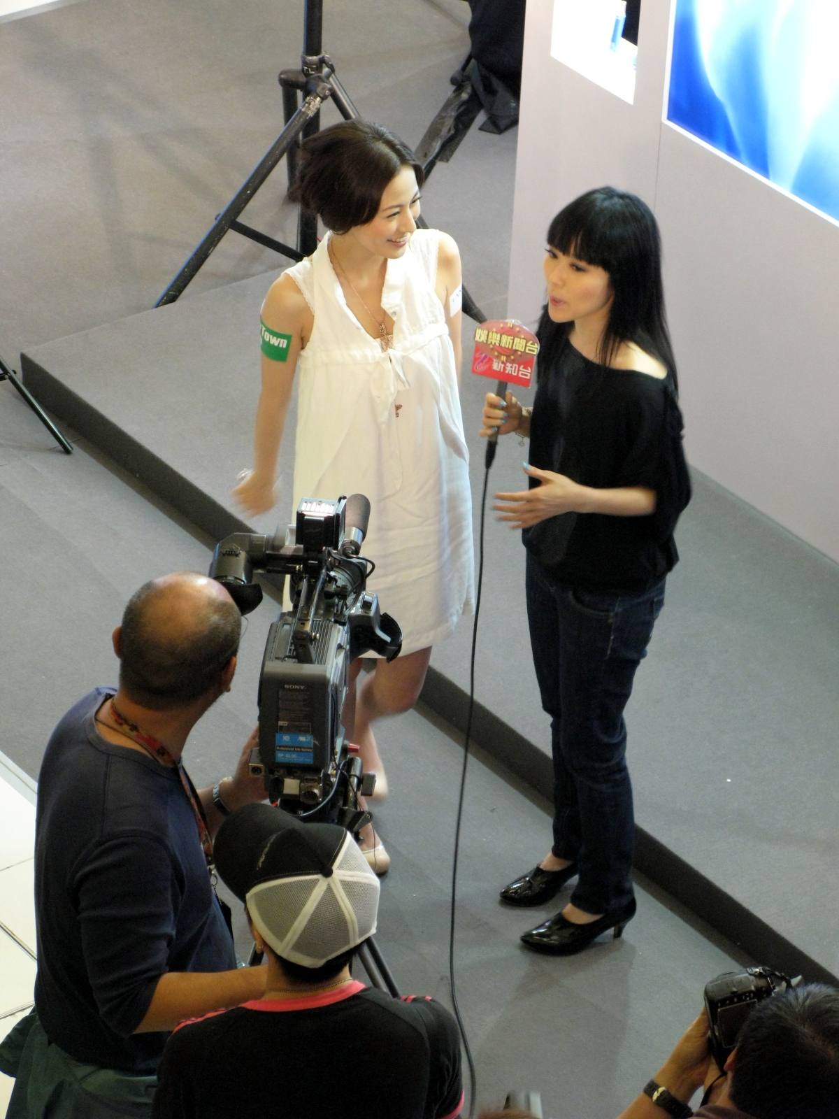 HK Cable TV Entertainment News Channel interview.